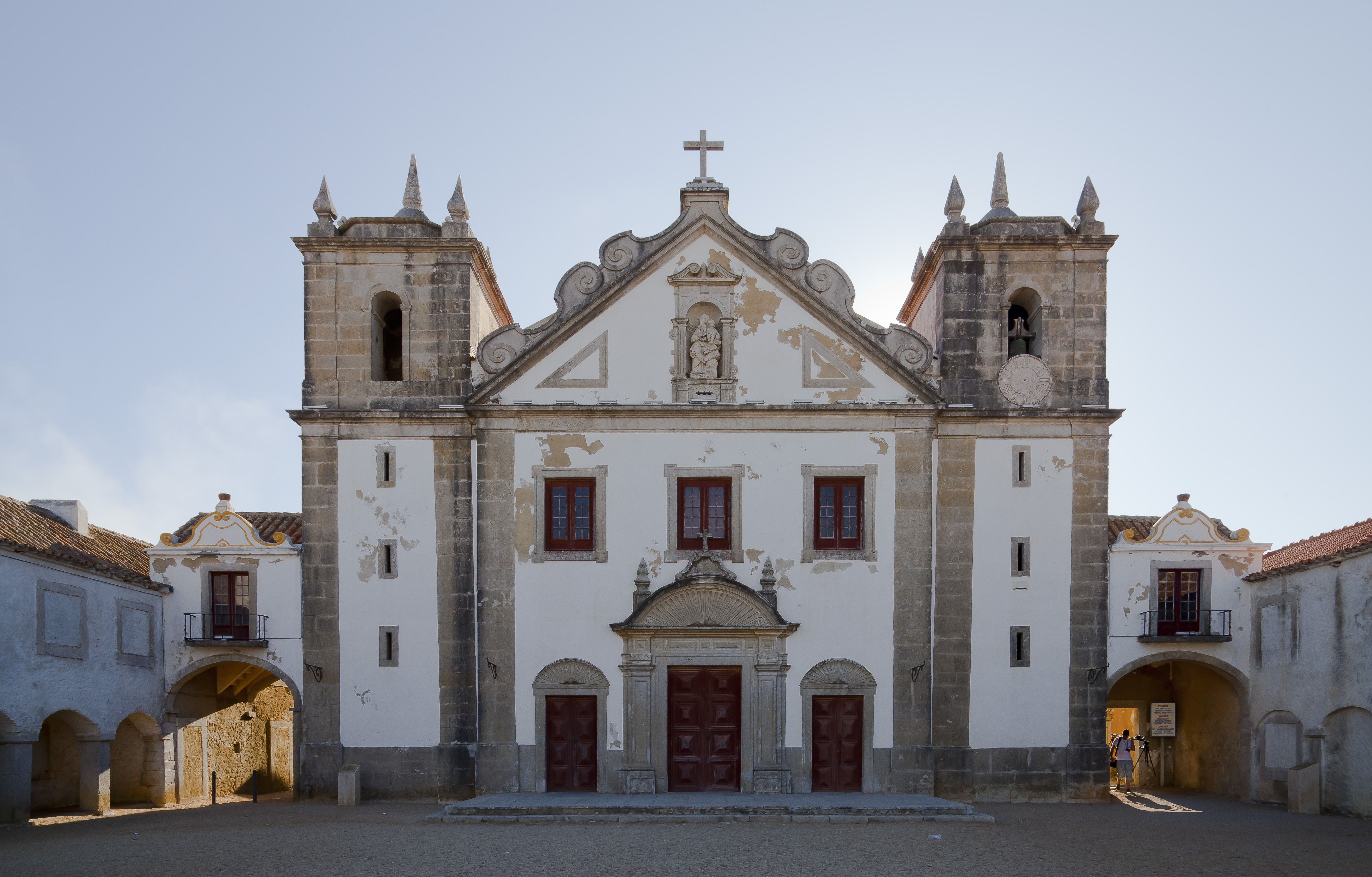 Casa dos Cirios, Cape Espichel, Portugal